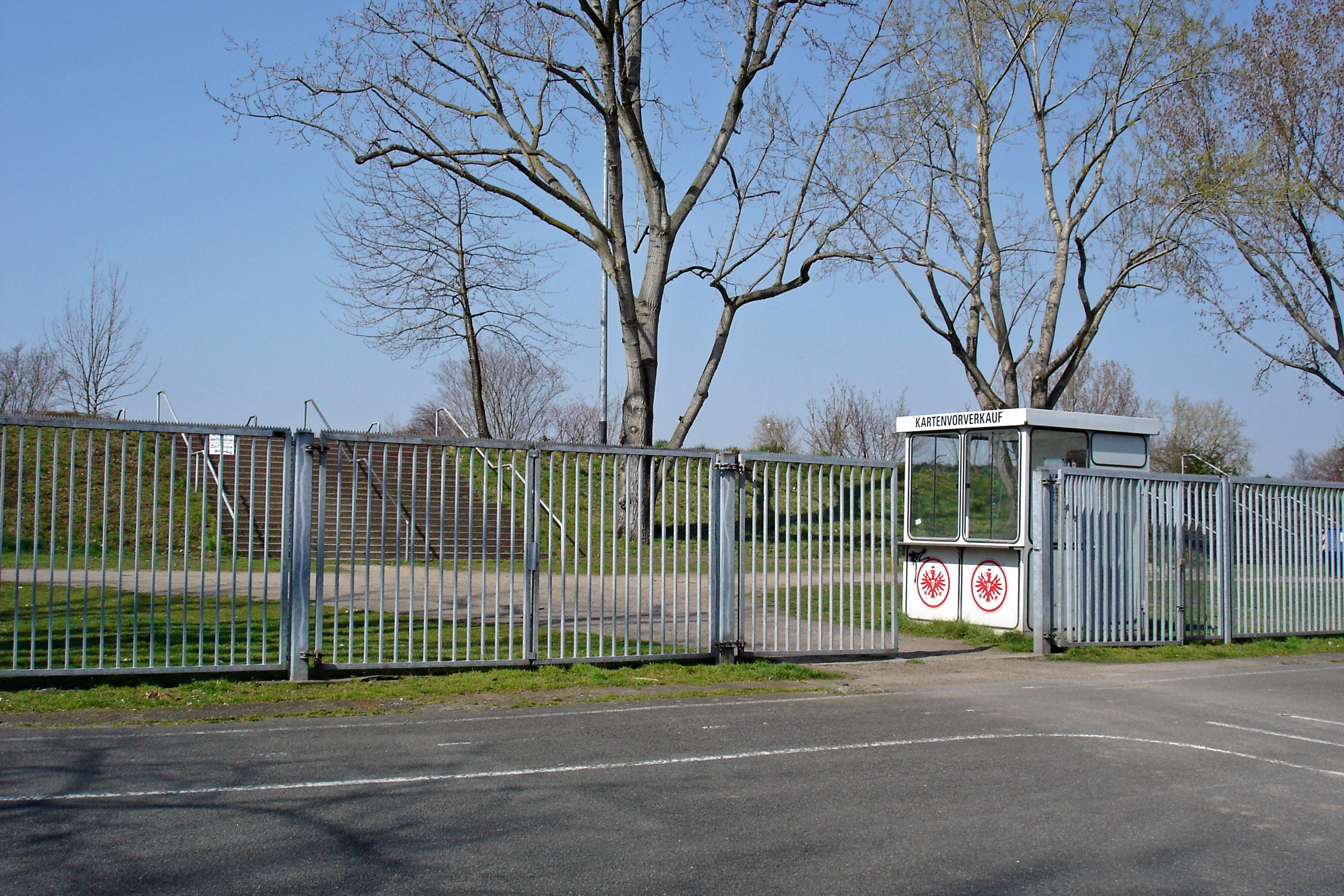 Sports ground Stadium at Riederwald of Eintracht Frankfurt in the borrough of Seckbach in Frankfurt, Hesse, Germany